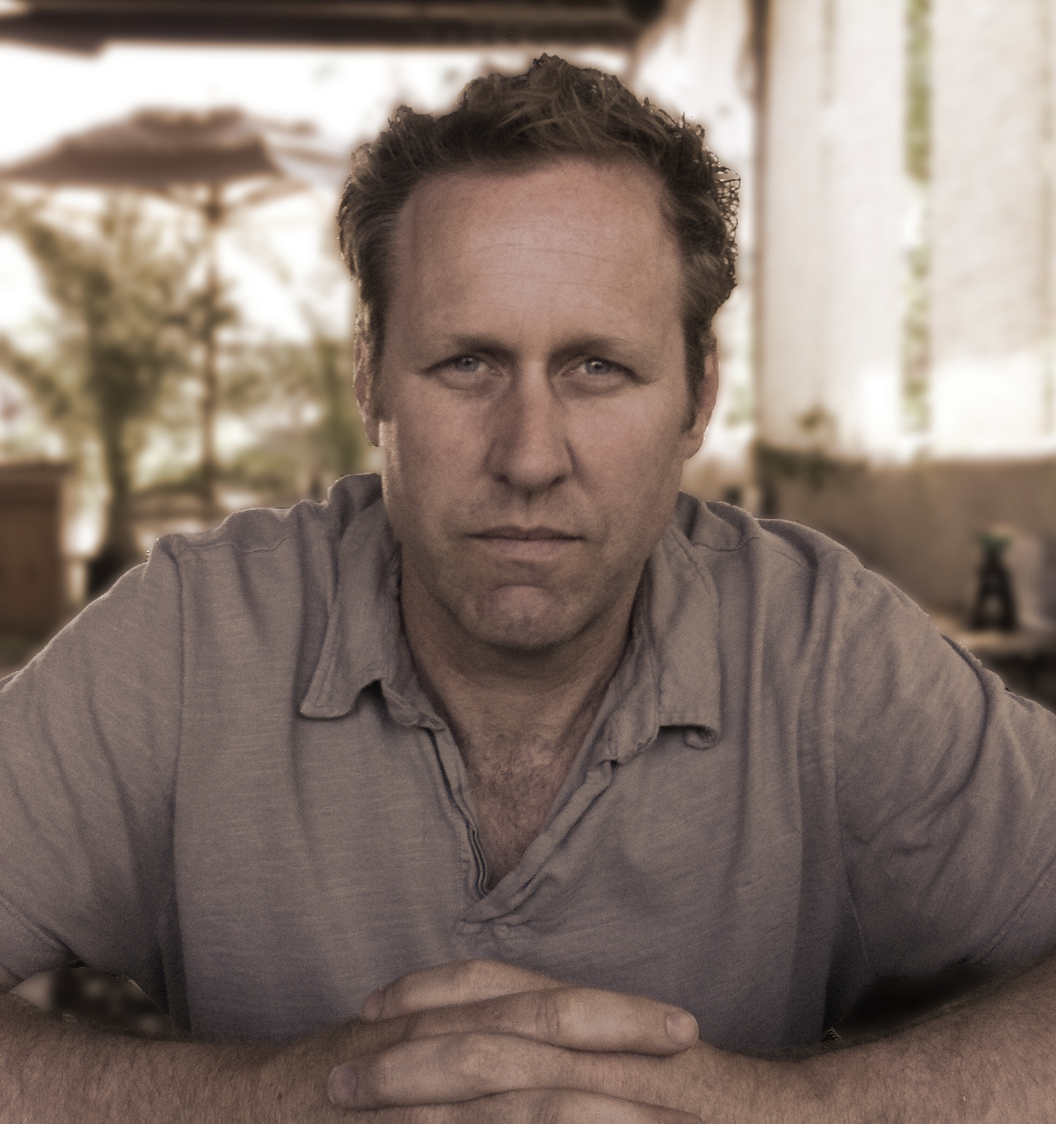 Photo of Roger Avary.